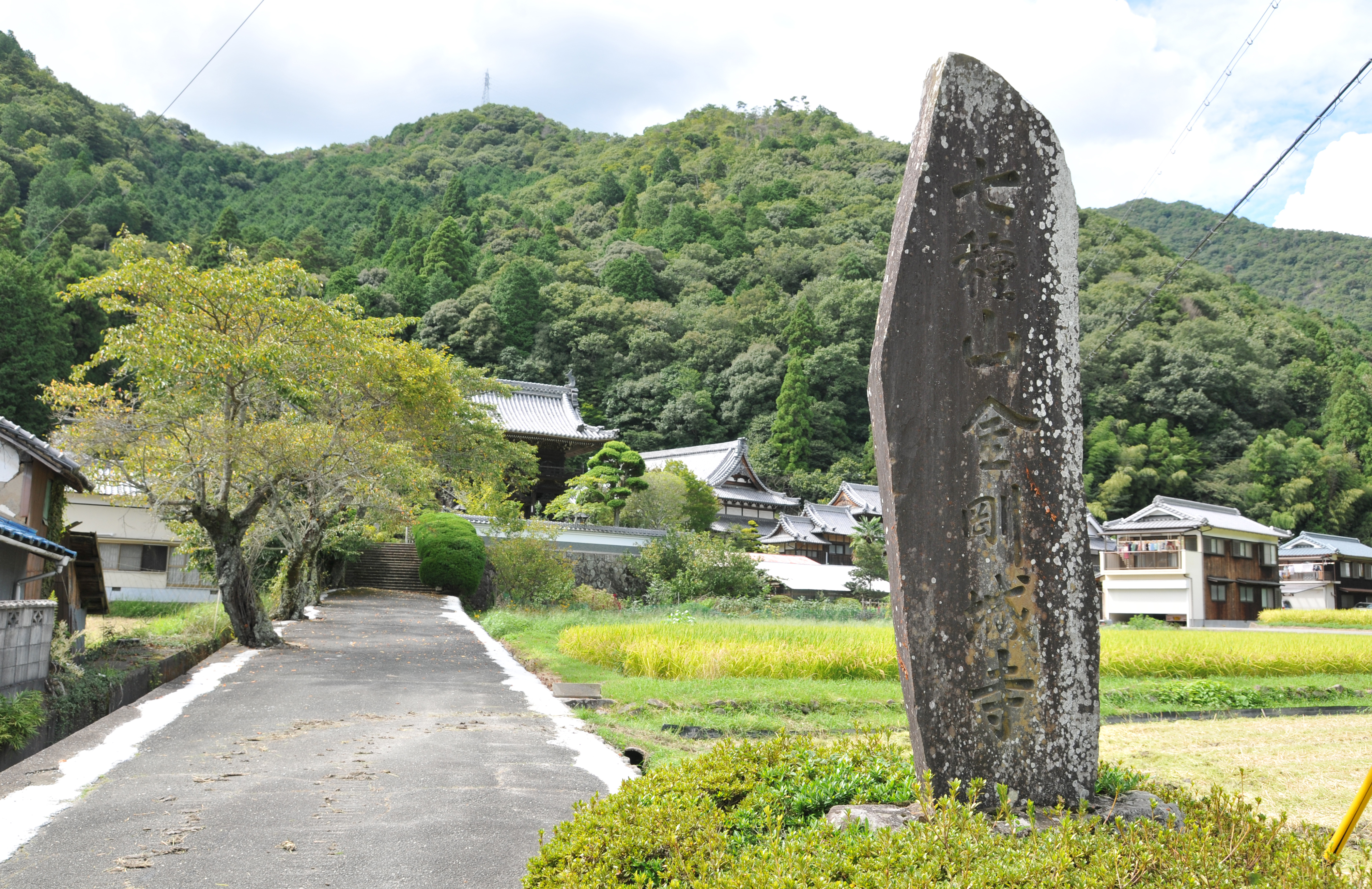 Kongōｊō-ji temple